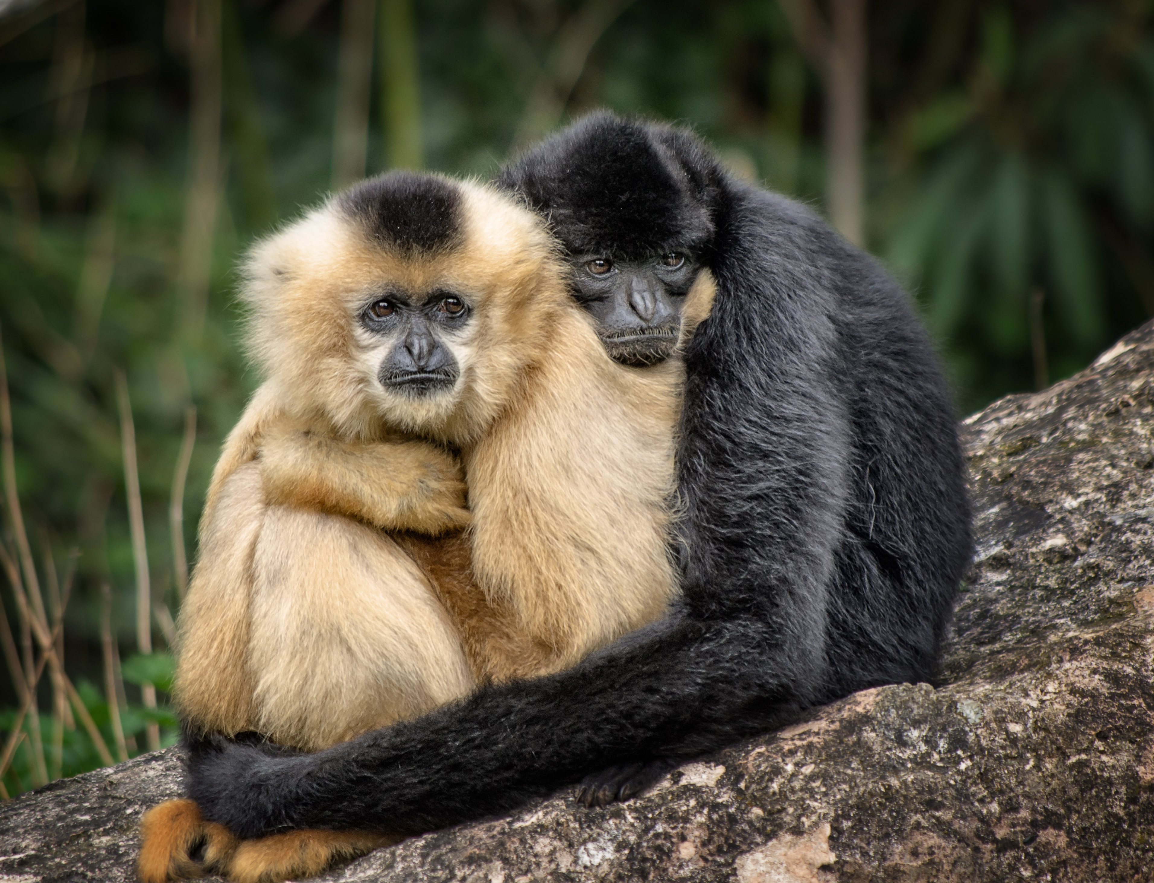 Ape hug